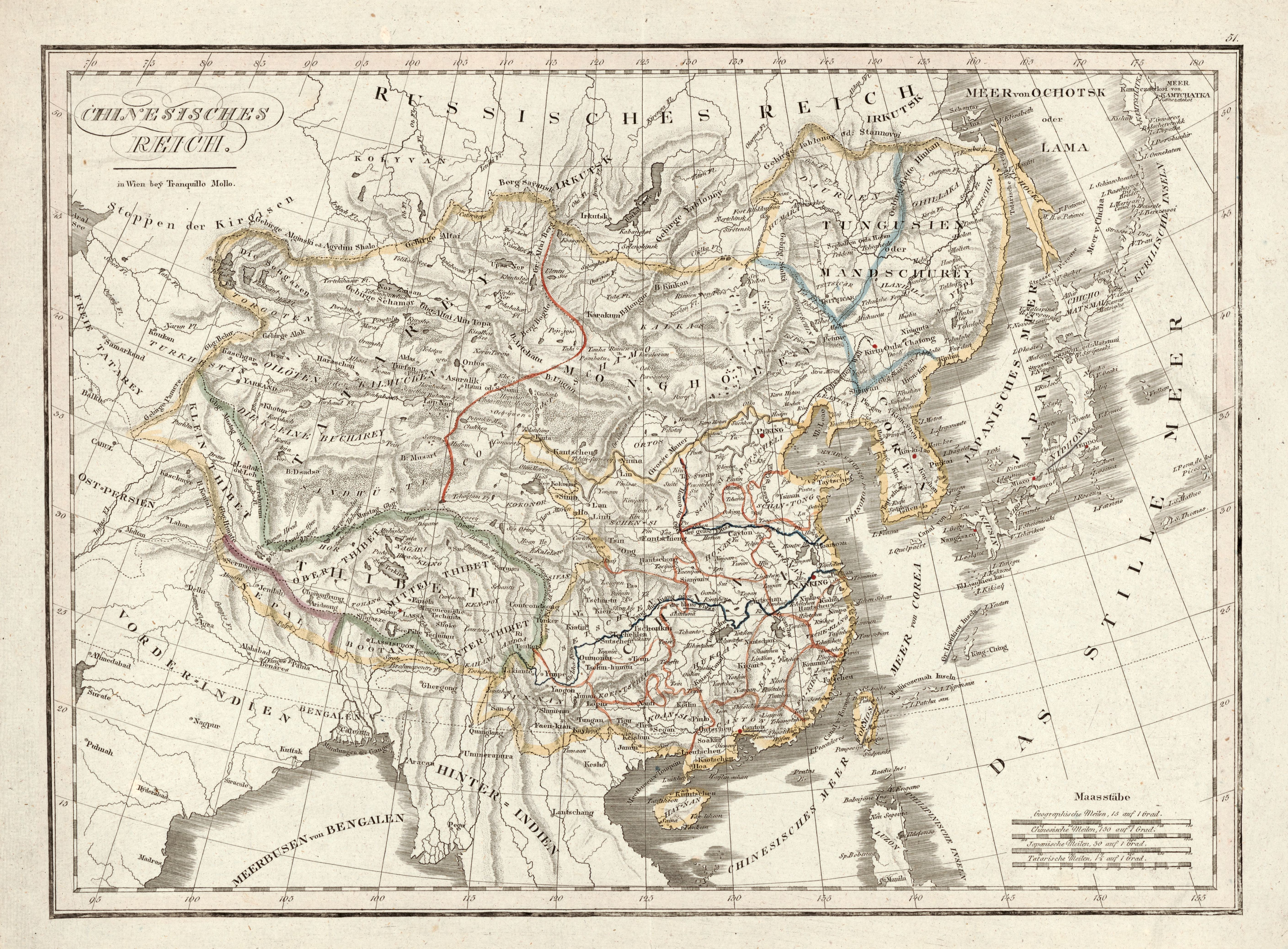 Relief shown by hachures. Shows administrative divisions. Minimal level cataloging record. Available also through the Library of Congress Web site as a raster image.